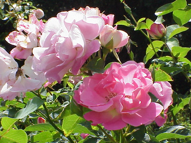 Species: Rosa sp. Family: Rosaceae Cultivar: Halali, Tantau 1956 Image No. 134